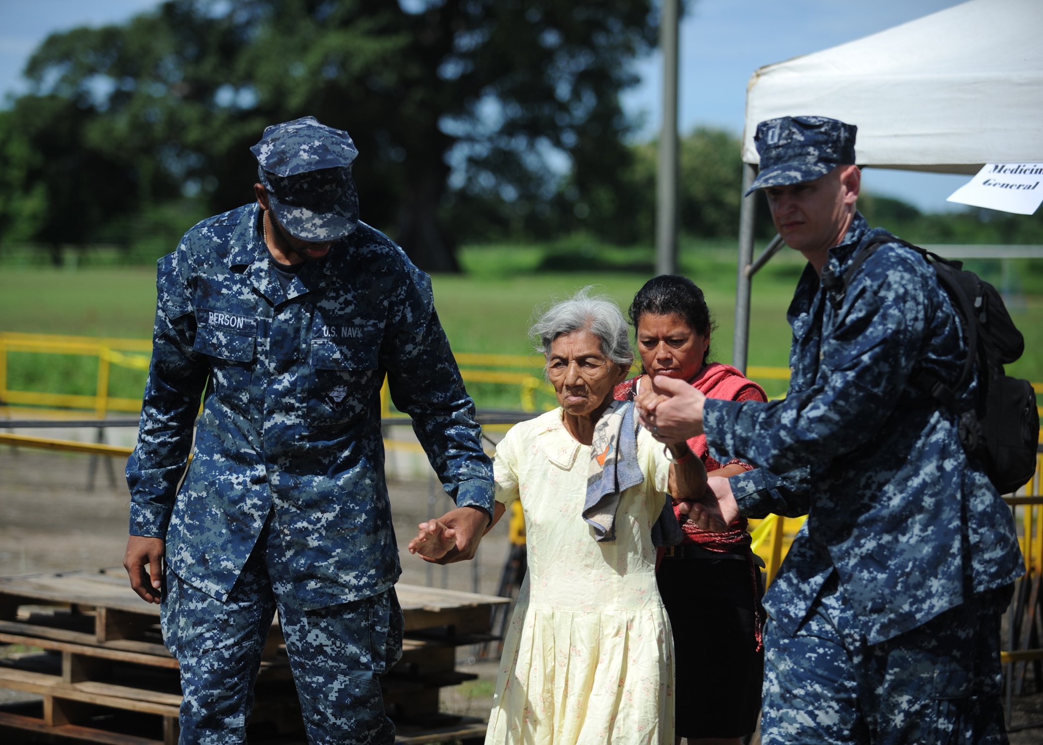 ACAJUTLA, El Salvador (July 15, 2011) Hospitalman Jabarae Person, left, and Lt. Jason Switzer escort a patient into the clinic during a Continuing Promise 2011 community service medical project at the Polideportivo medical site. Continuing Promise is a five-month humanitarian assistance mission to the Caribbean, Central and South America. (U.S. Navy photo by Mass Communication Specialist 2nd Class Eric C. Tretter/Released)